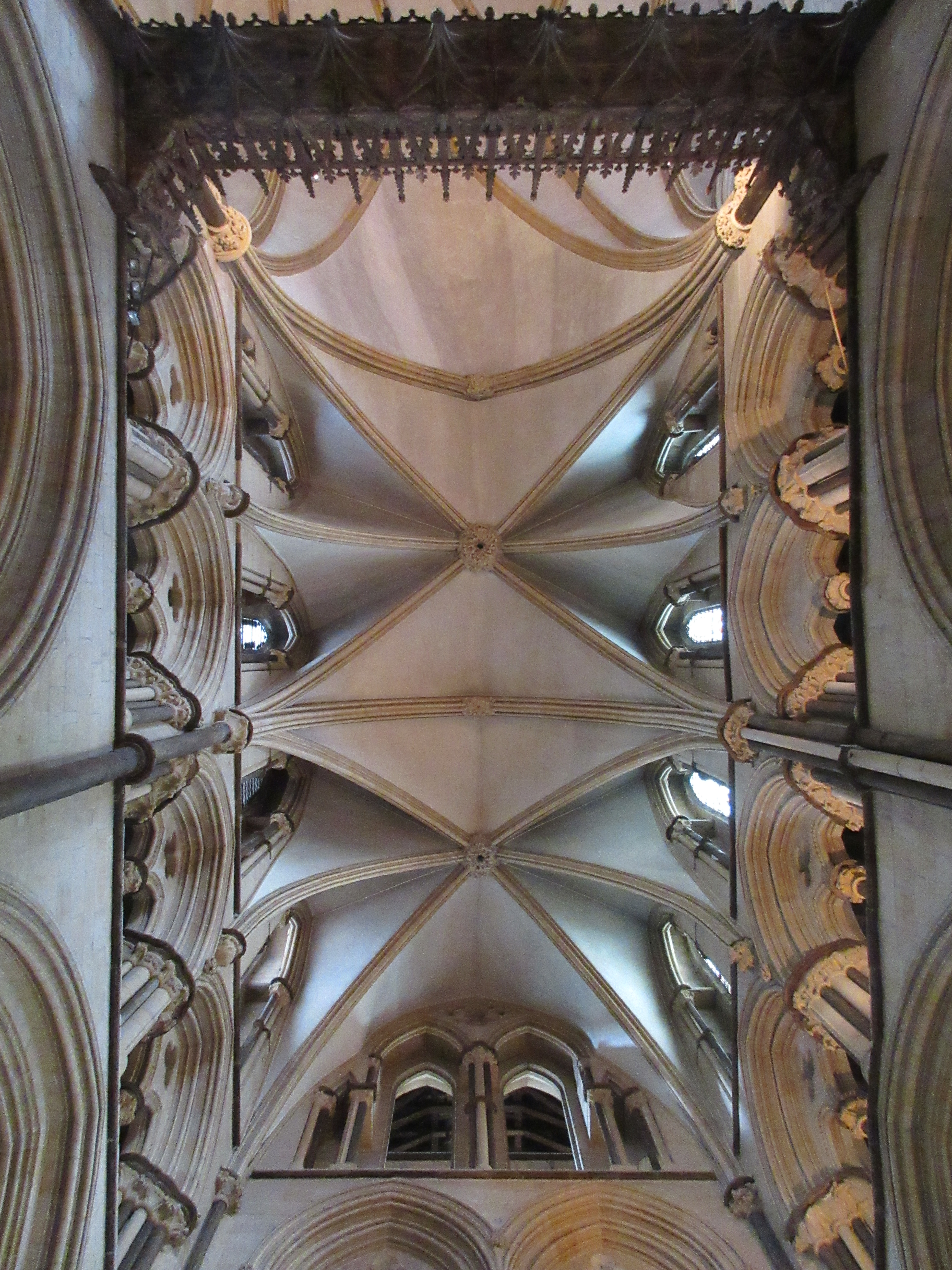 Vault of Secondary Transept